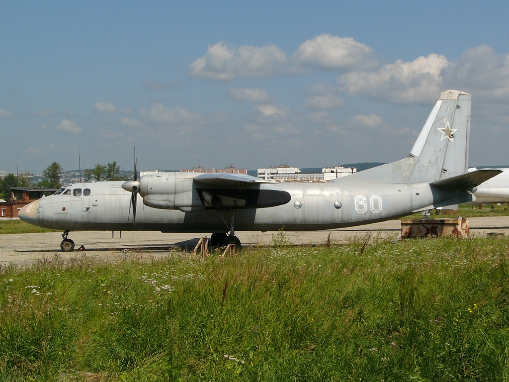 All serial An-24T's was built in Irkutsk Aviation Plant (more then 250). Apron of Irkutsk Air Force Technical School.